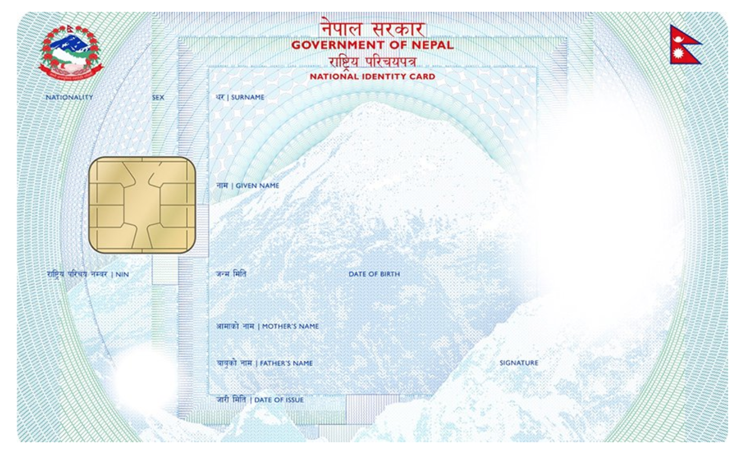 Format of National Identity Card (Nepal) created by the administrative decision.